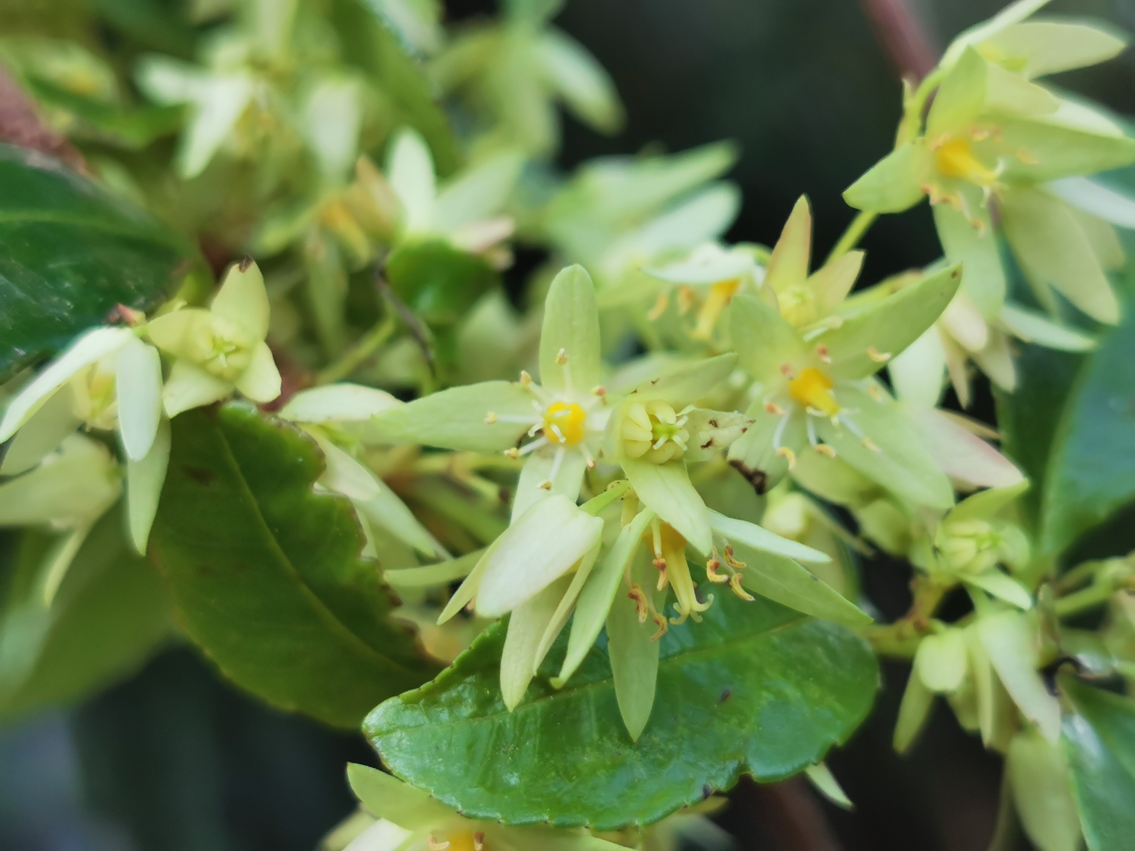 Aphanopetalum resinosum Whale Beach Road, Palm Beach 08/09/2019